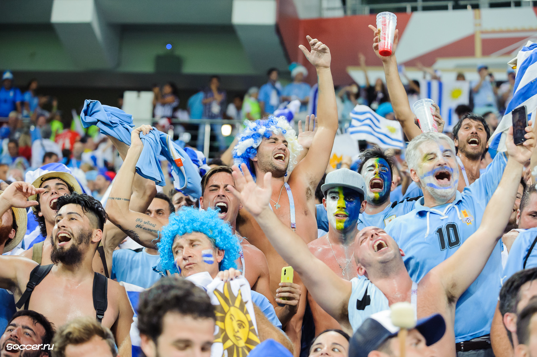 Uruguay vs Portugal match